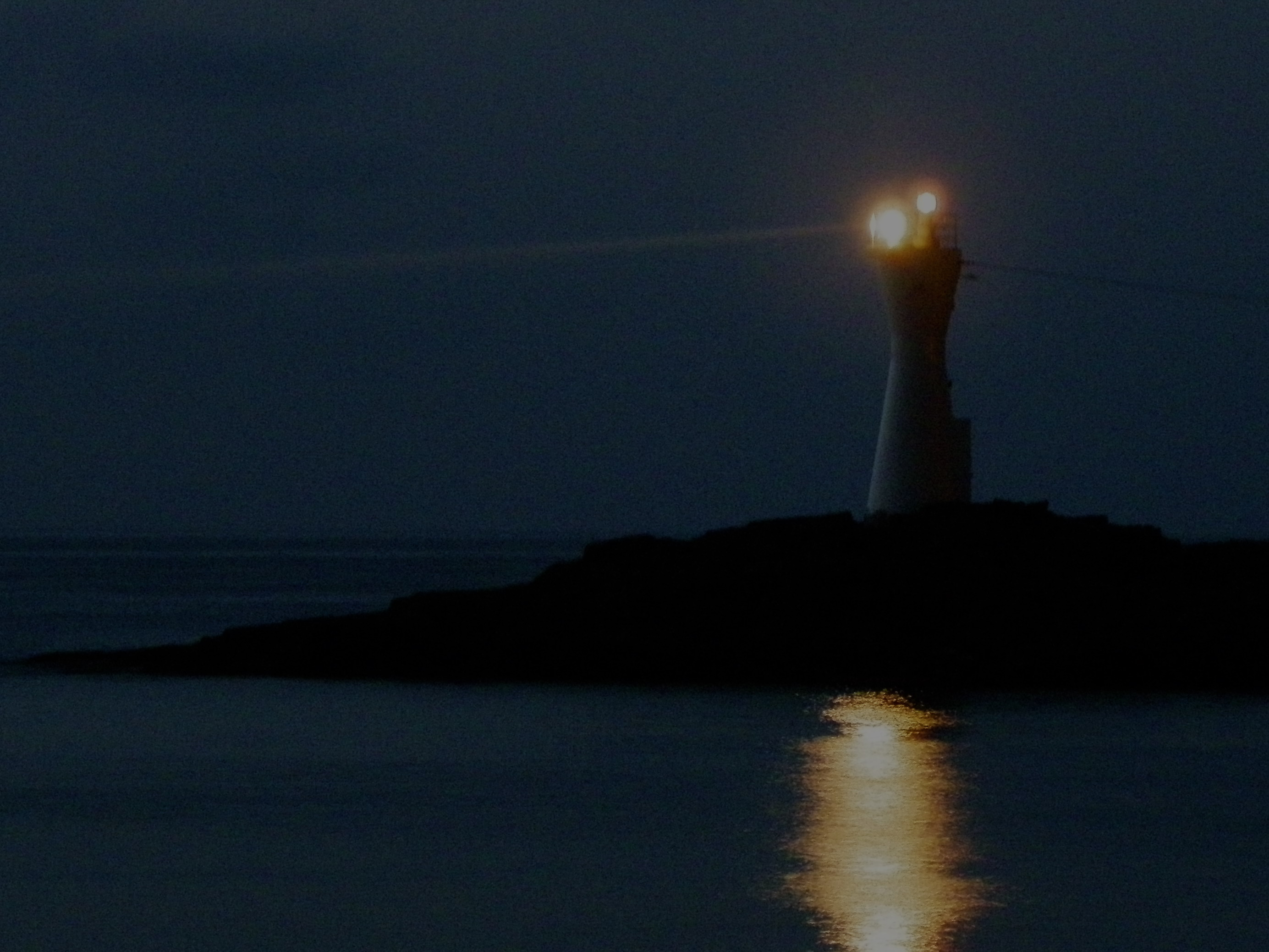 takasuko irradiation light